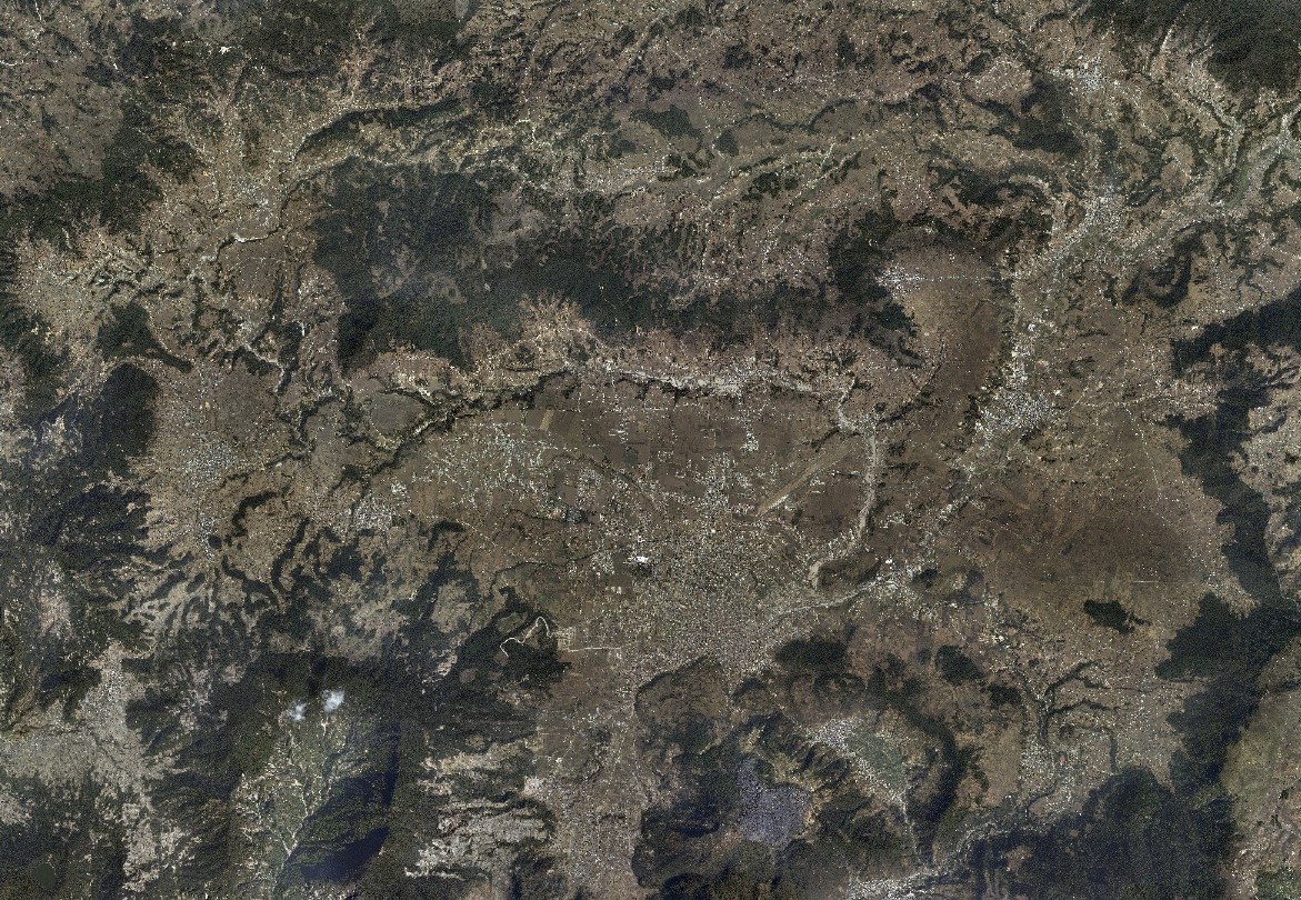 Área Metropolitana Los Altos